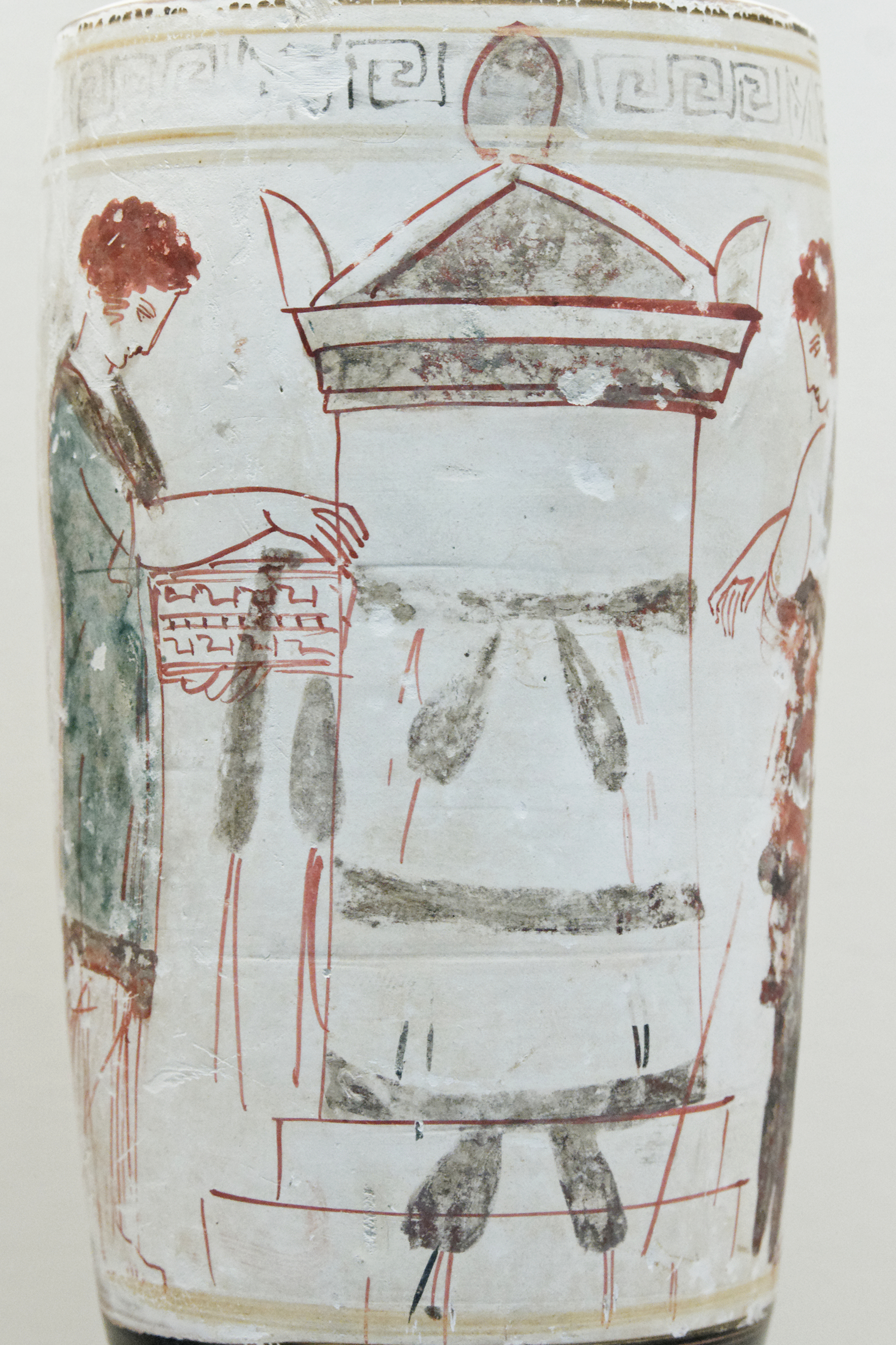 Woman decking a gravestone with garlands. Attic white-ground lekythos.